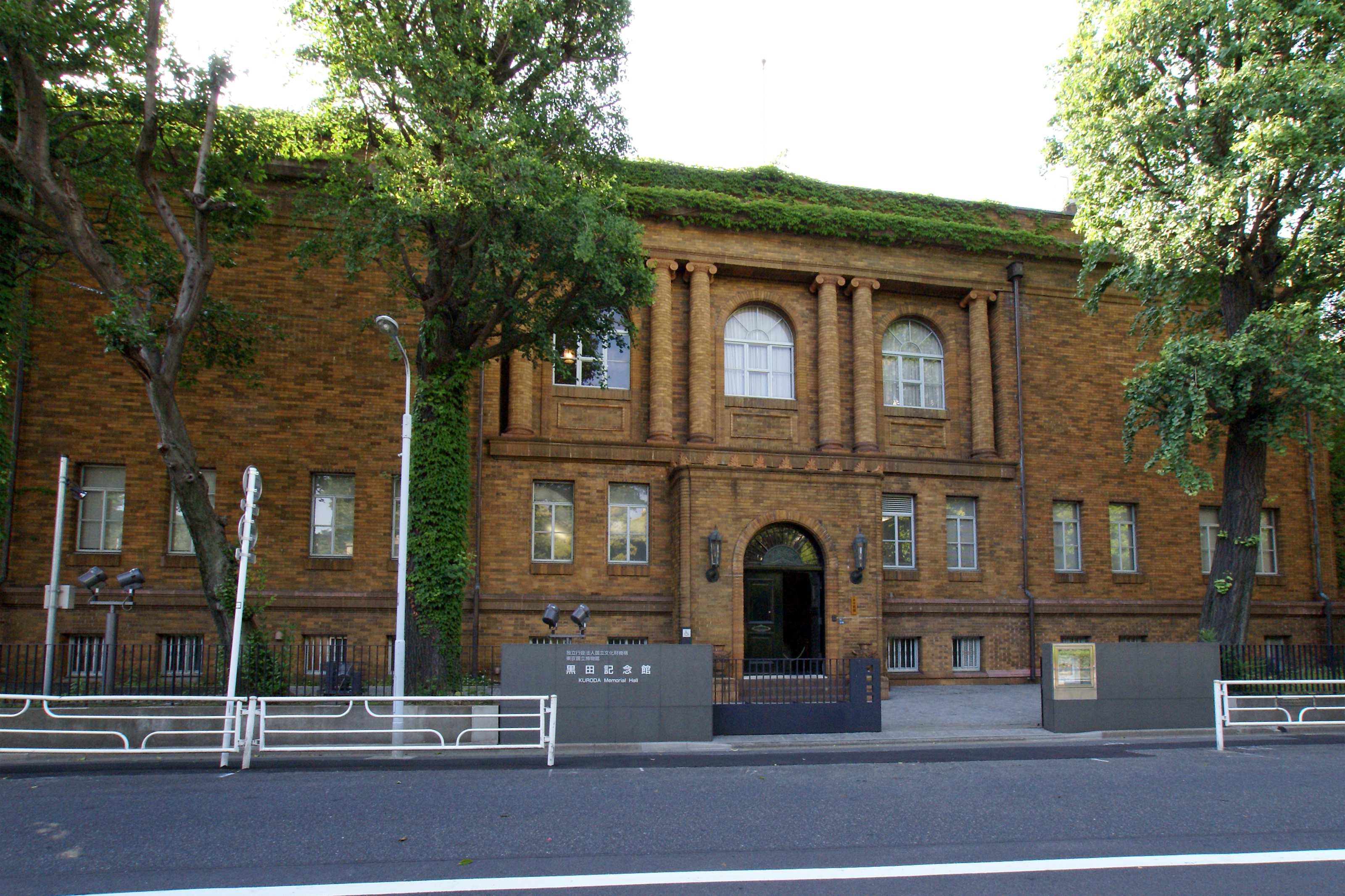 Kuroda Memorial Hall. - Ueno, Taito-ku, Tokyo, Japan